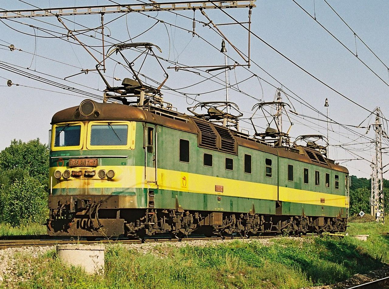 Broad gauge locomotive 125.801+802 of ZSSK railway operator, Slančík passing loop, Slovakia